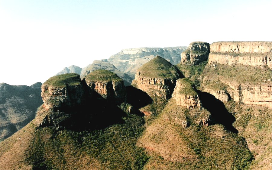 The Three Rondavels are a famous spot in the Mpumalanga Province of South Africa.